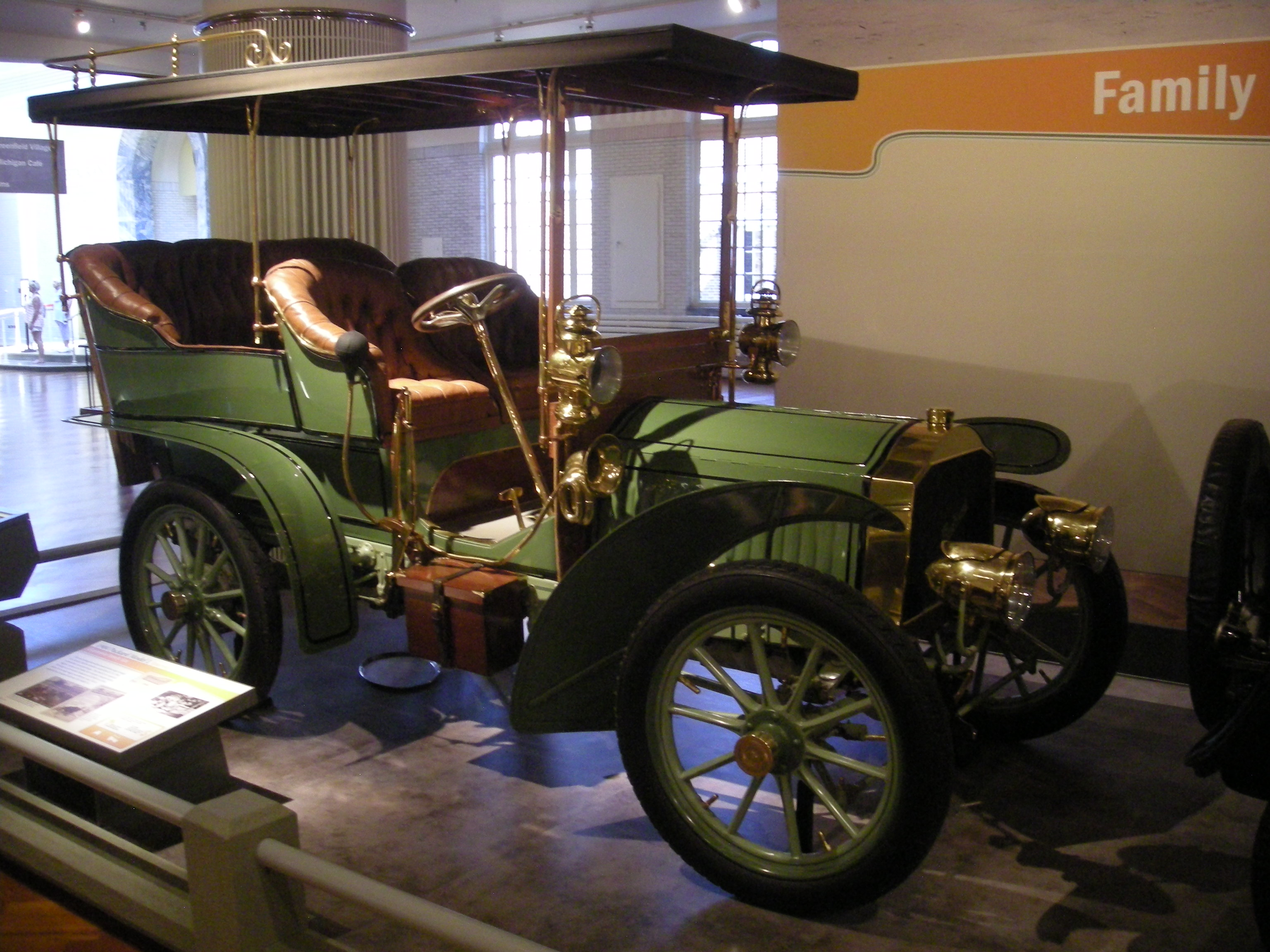 A 1904 Packard Model L rear entrance tonneau on display at the Henry Ford Museum in Dearborn, Michigan (United States).